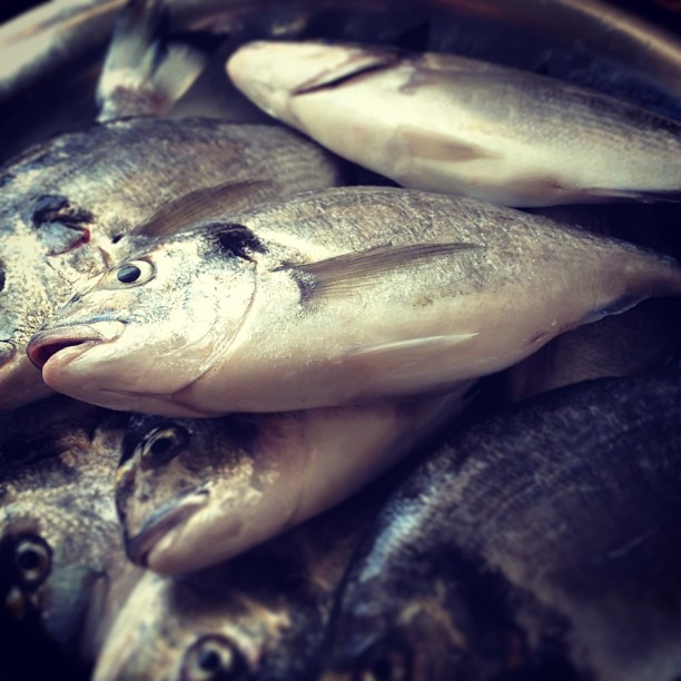 beam fish